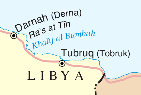 Gulf of Bomba beteen Derna and Tobruk.